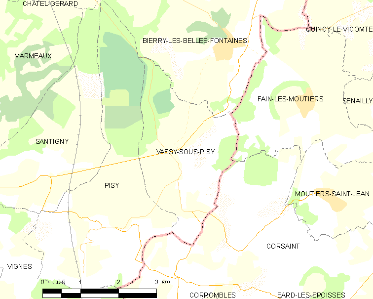 Map of French municipality Vassy